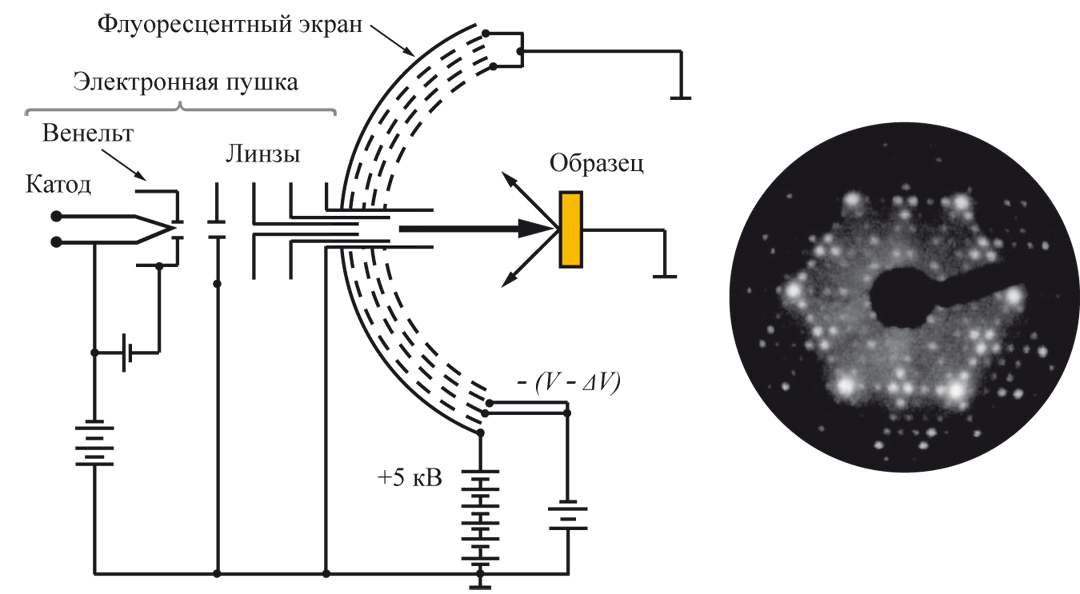 Diagram of a LEED optics apparatus.